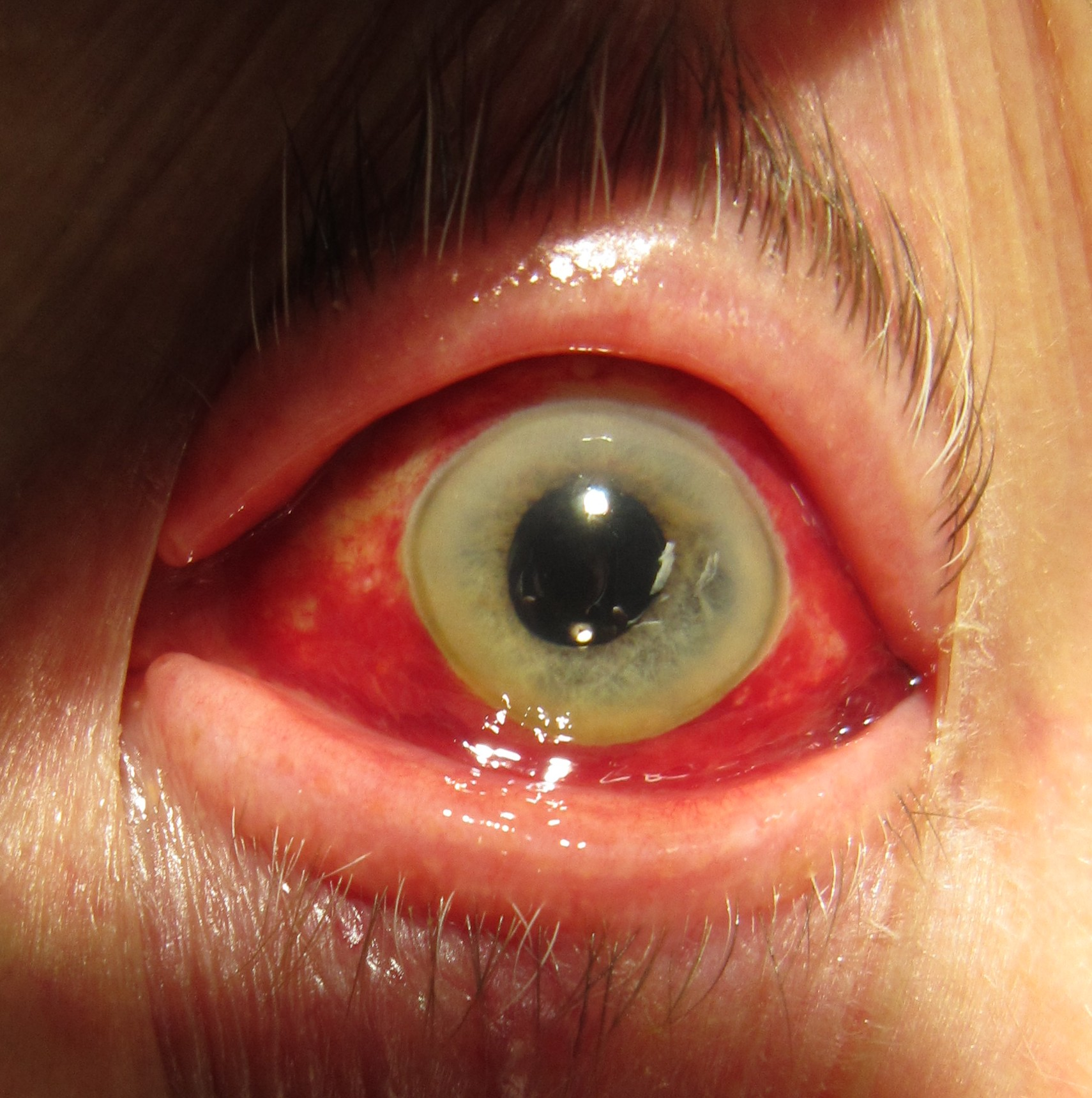 Subconjunctival hemorrhage